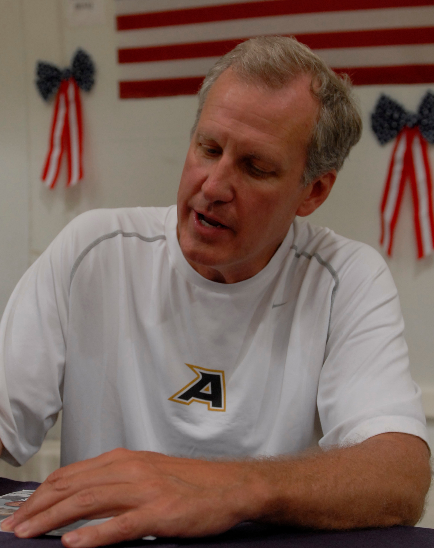 West Point basketball coach Jim Crews signs his autograph and interacts with Soldiers during Operation Hoop Talk at Forward Operating Base Marez, in Mosul, Iraq, June 5. This event allowed Soldiers to ask six different university basketball coaches questions, get their autographs and receive tips on how to improve their basketball skills.